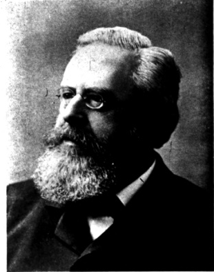 The alternative medicine proponent and spiritualist E. D. Babbitt.